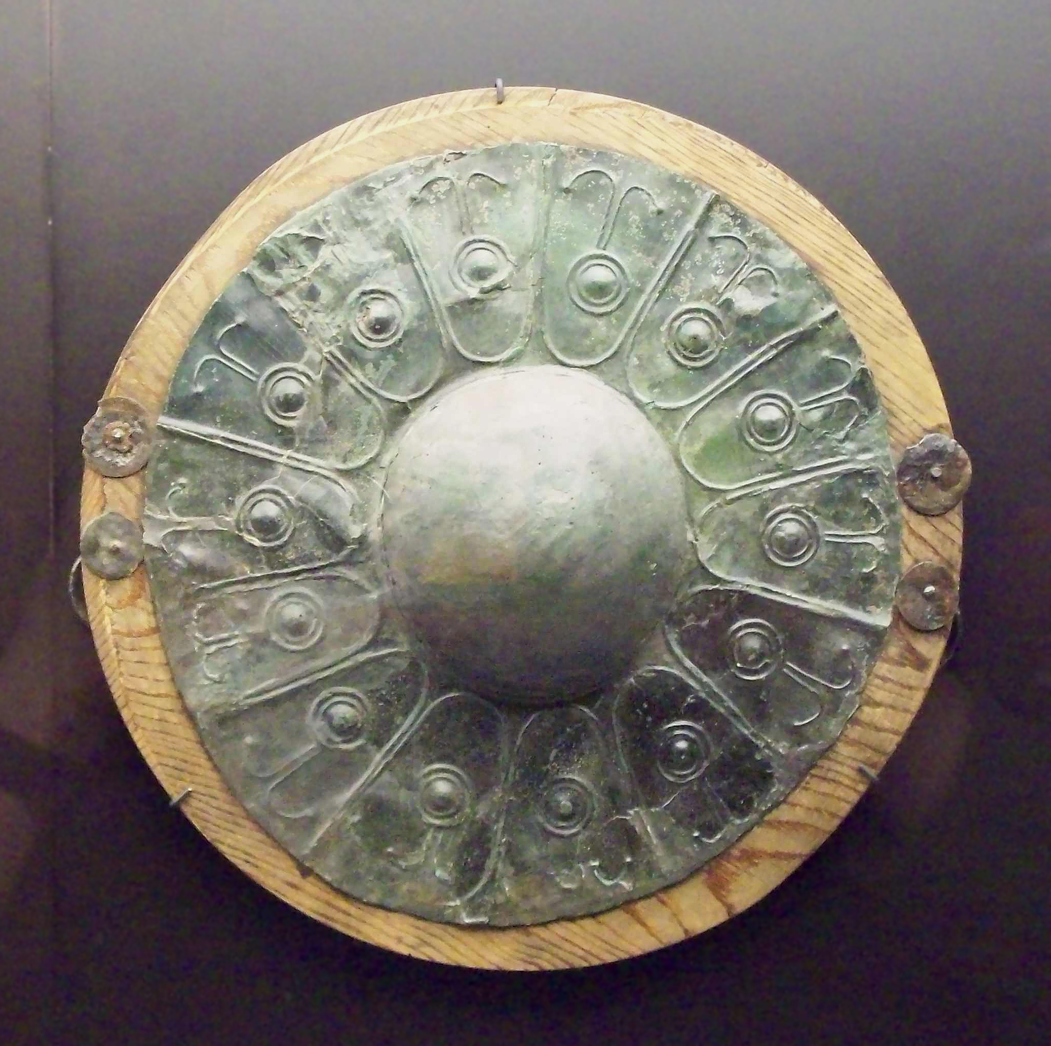 Large central knob from a Celtiberian round shield. Typology: Quesada IA.